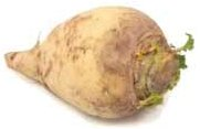 Rutabaga image from Centers for Disease Control[1]